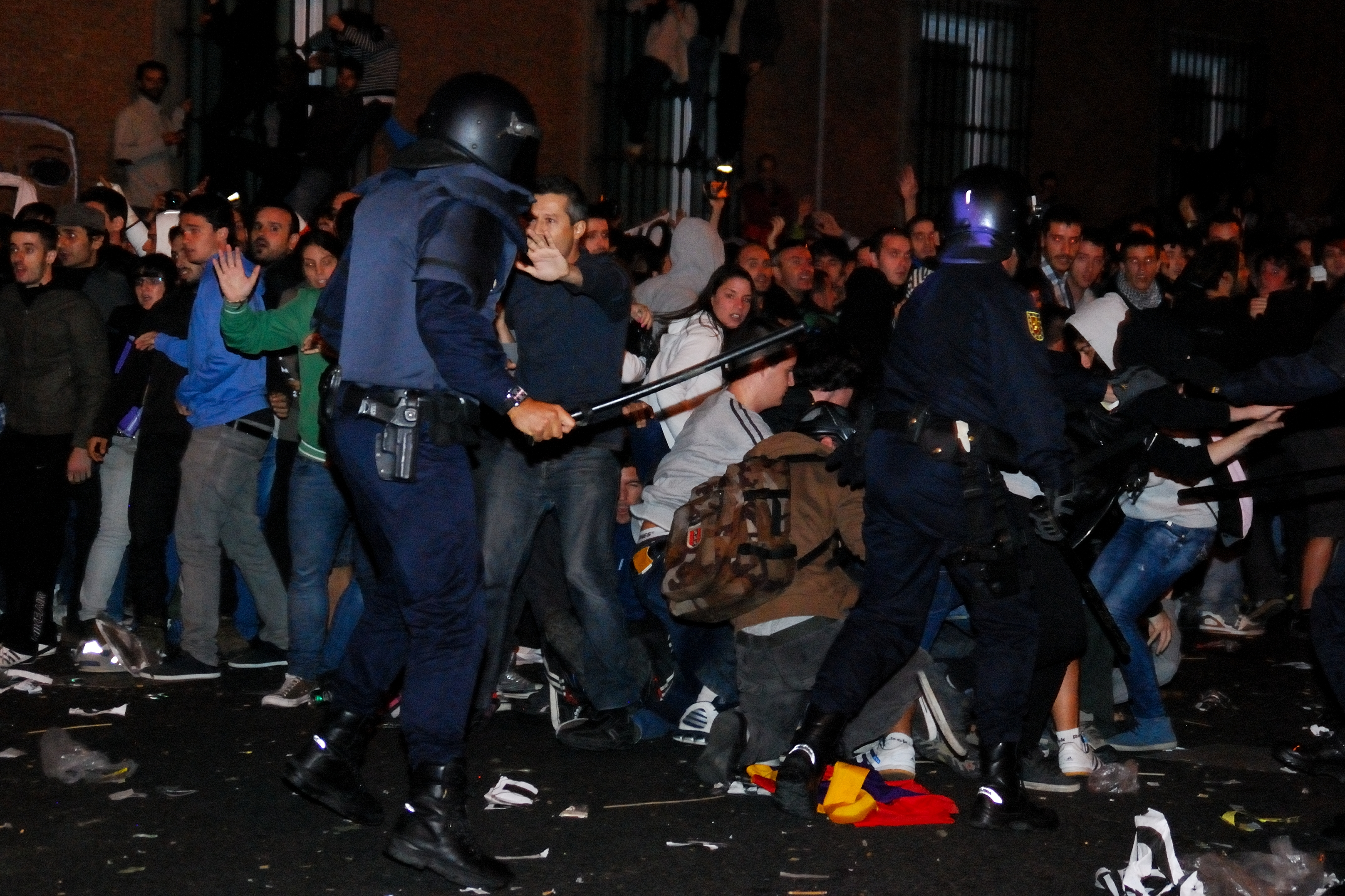 Police hiting protesters in Rodea el Congreso protest.